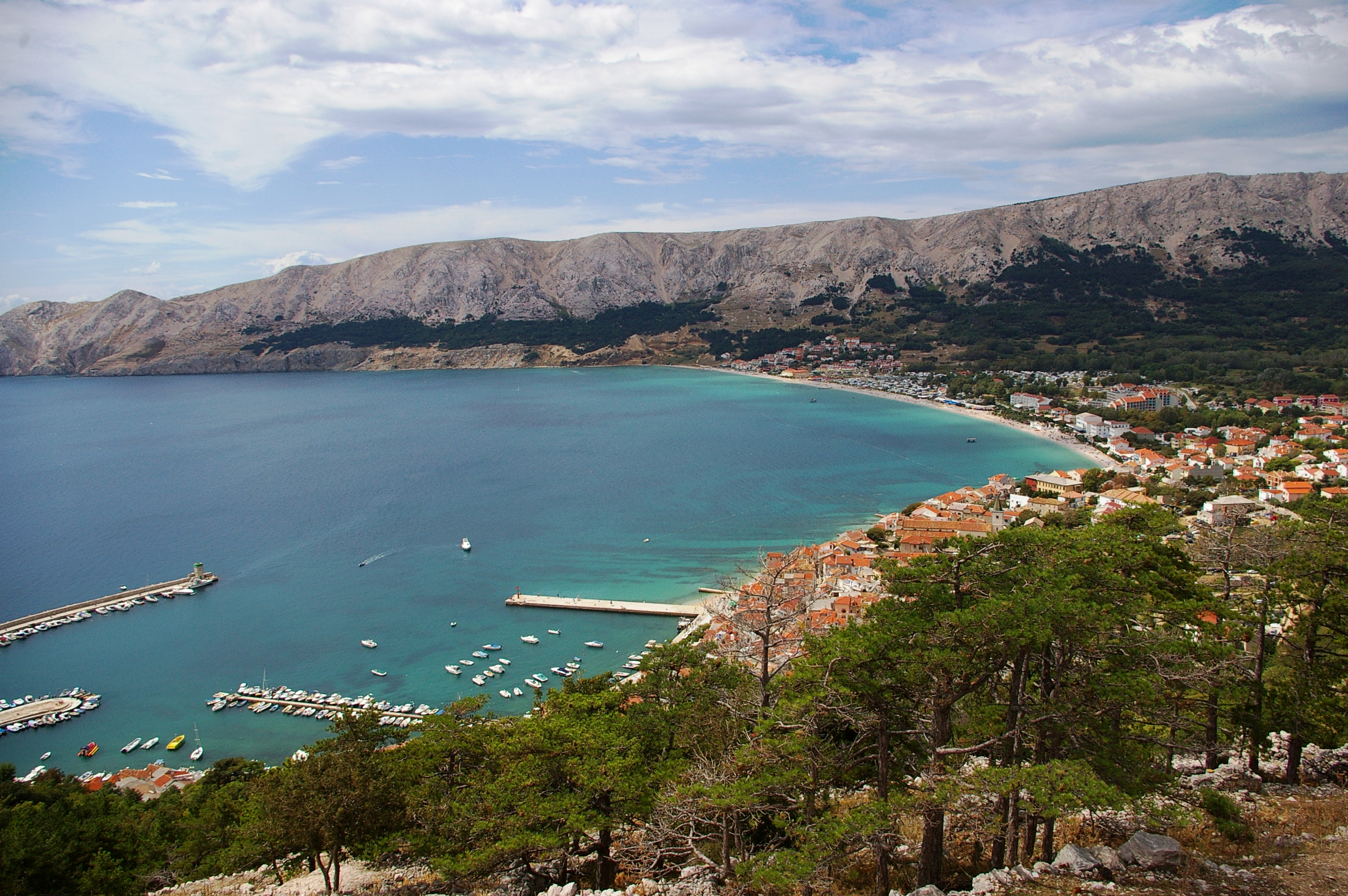 View from the hill at the cemetery.